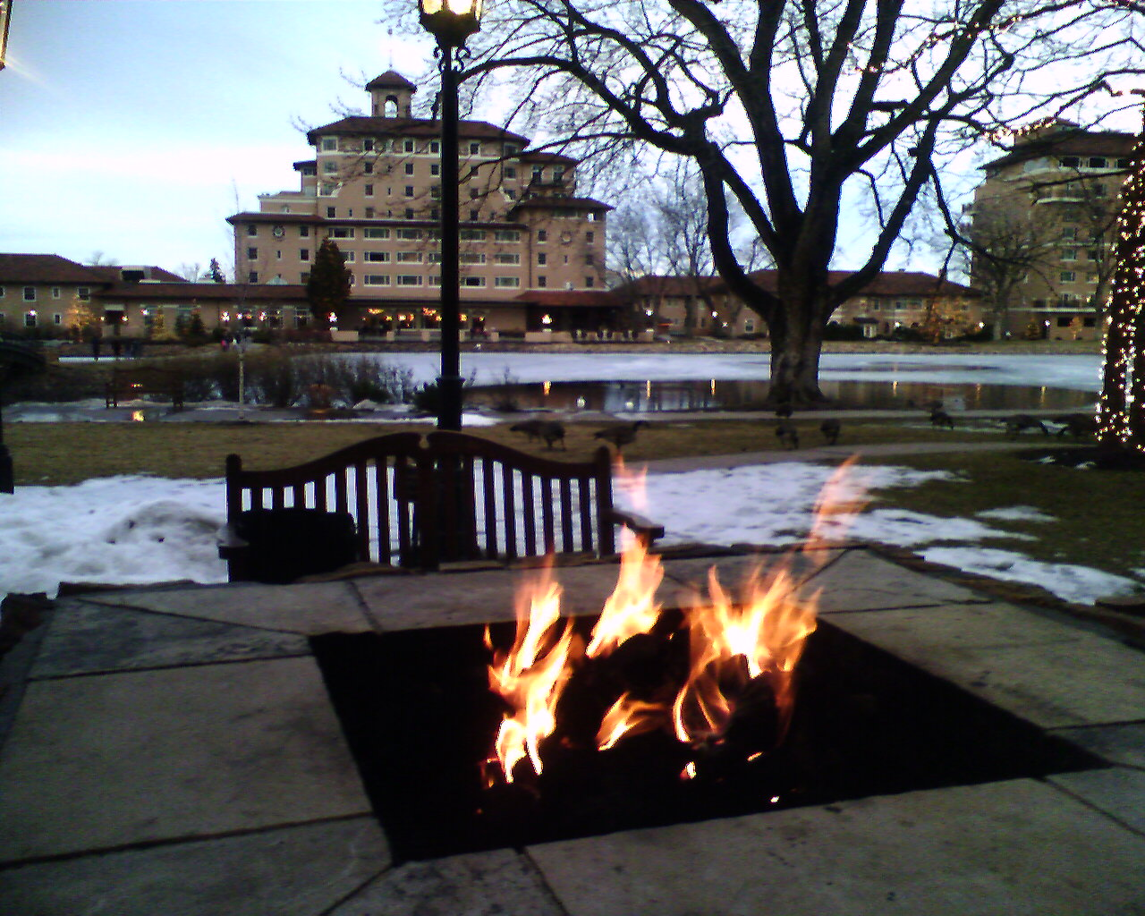 Taken at 5:32 PM on February 18, 2007 - cameraphone upload by ShoZu